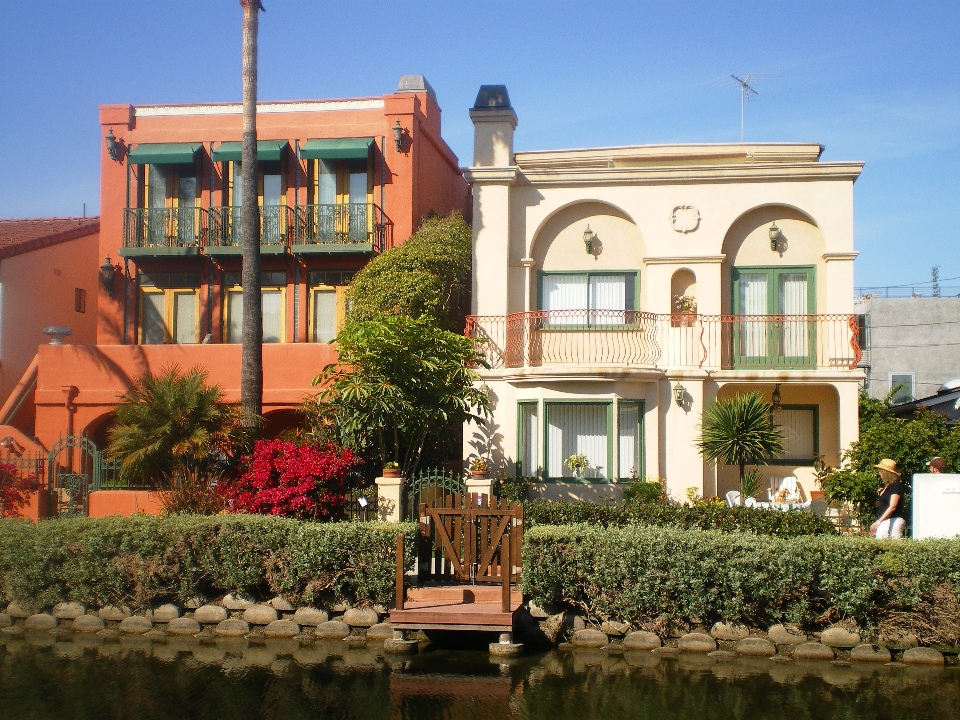 Houses on Grand Canal, Venice Canal Historic District, Venice, California